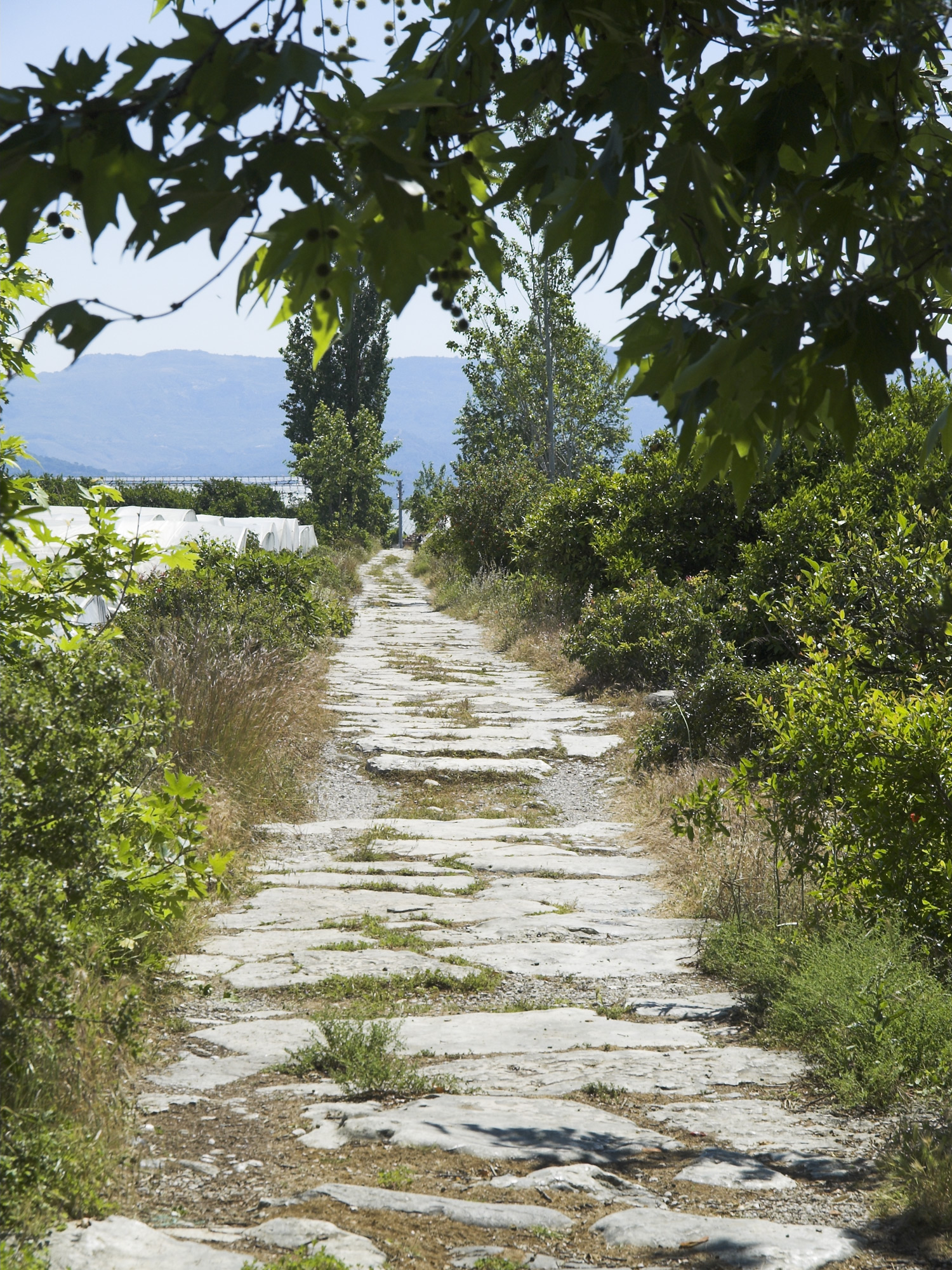 The Roman Bridge near Limyra, Lycia, Turkey. View over the bridge to the east. The late antique structure is one of the oldest segmental arch bridges in the world. The 360 m long bridge crosses on 28 arches the Alakır Çayı, 26 of which being segmental arches with an average span to rise ratio of 5.3 to 1. Today, the structure is buried up to the vaults by river sedimentation.